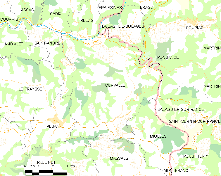 Map of French municipality Curvalle